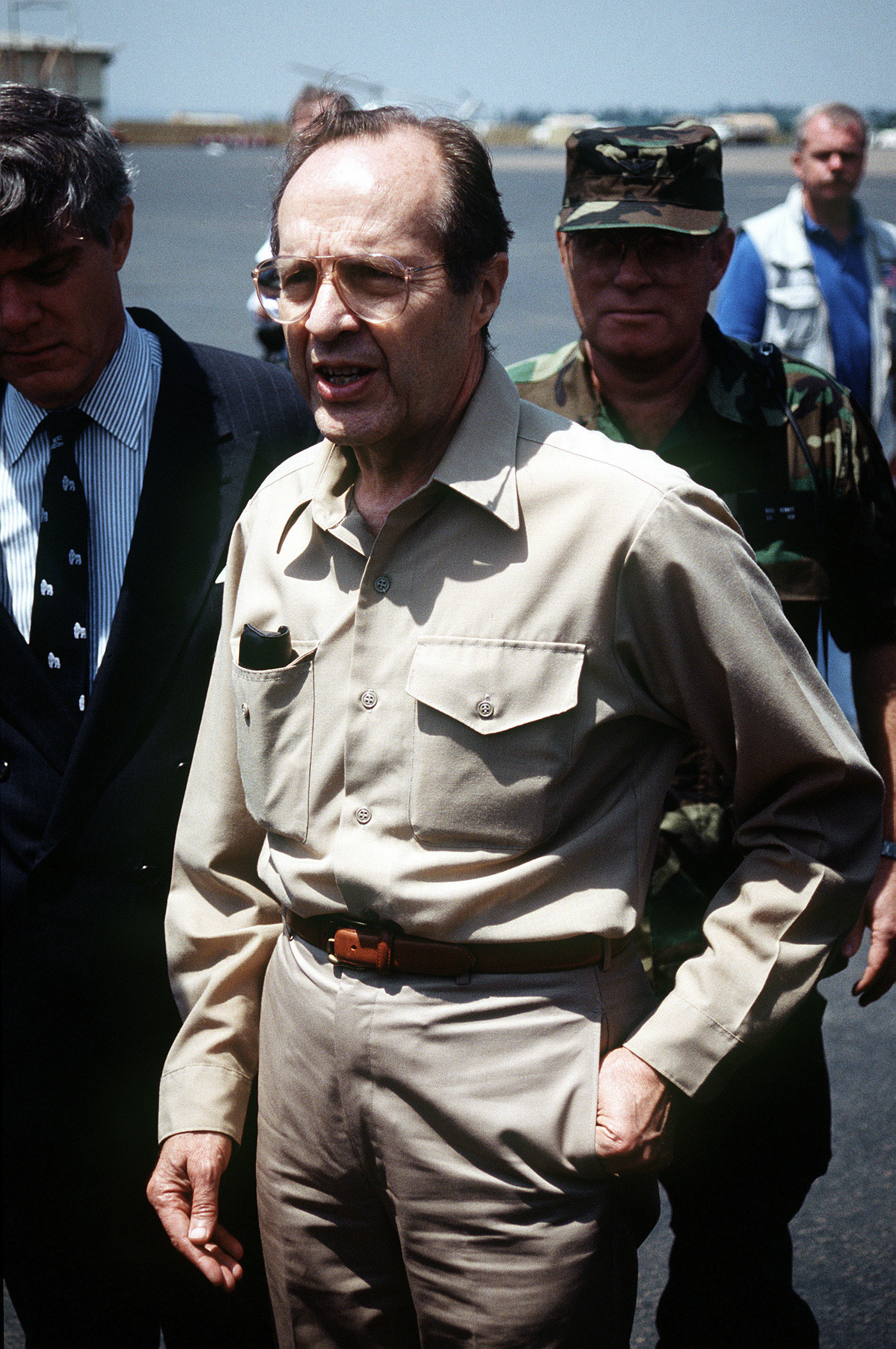 Secretary of Defense William Perry talks to reporters at Kigali Airport, Rwanda after his arrival to check on status of the relief operation.